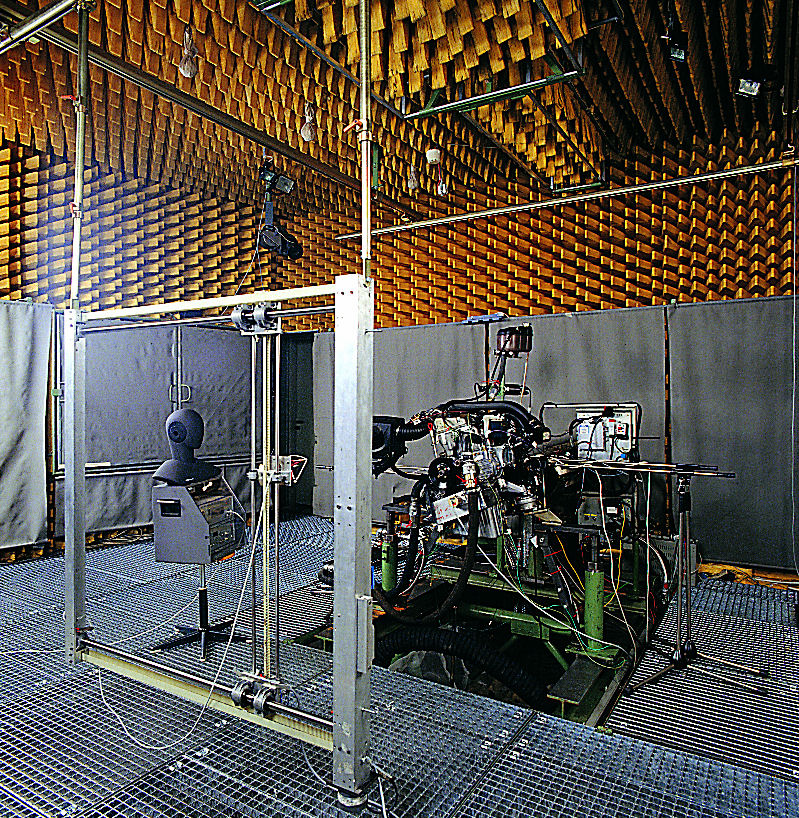 Anechoic engine test stand with microphone positioning system and artificial head at FKFS, Stuttgart, Germany